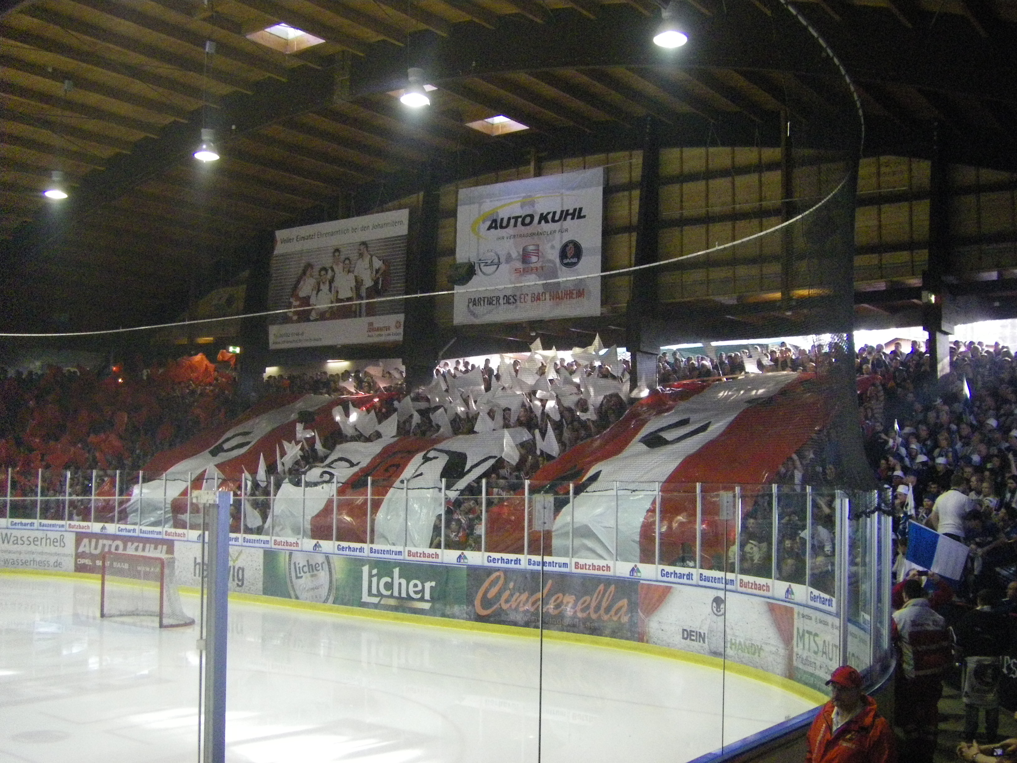 Choereo of fan section in Colonel Knight Stadium, Bad Nauheim, before the start of the final match between EC Bad Nauheim and Kassel Huskies